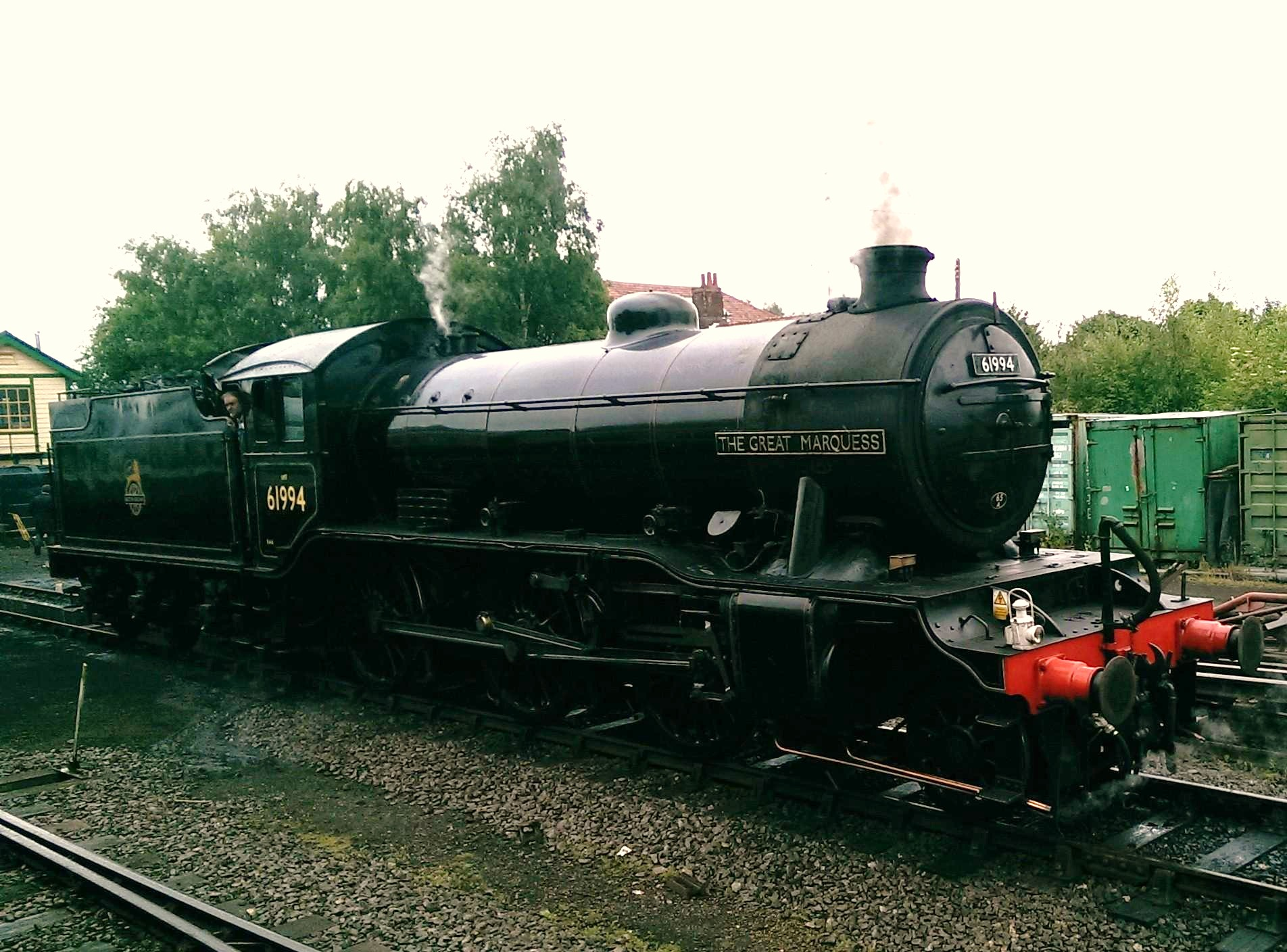 LNER Class K4 resting in the yard at Dereham between trains.